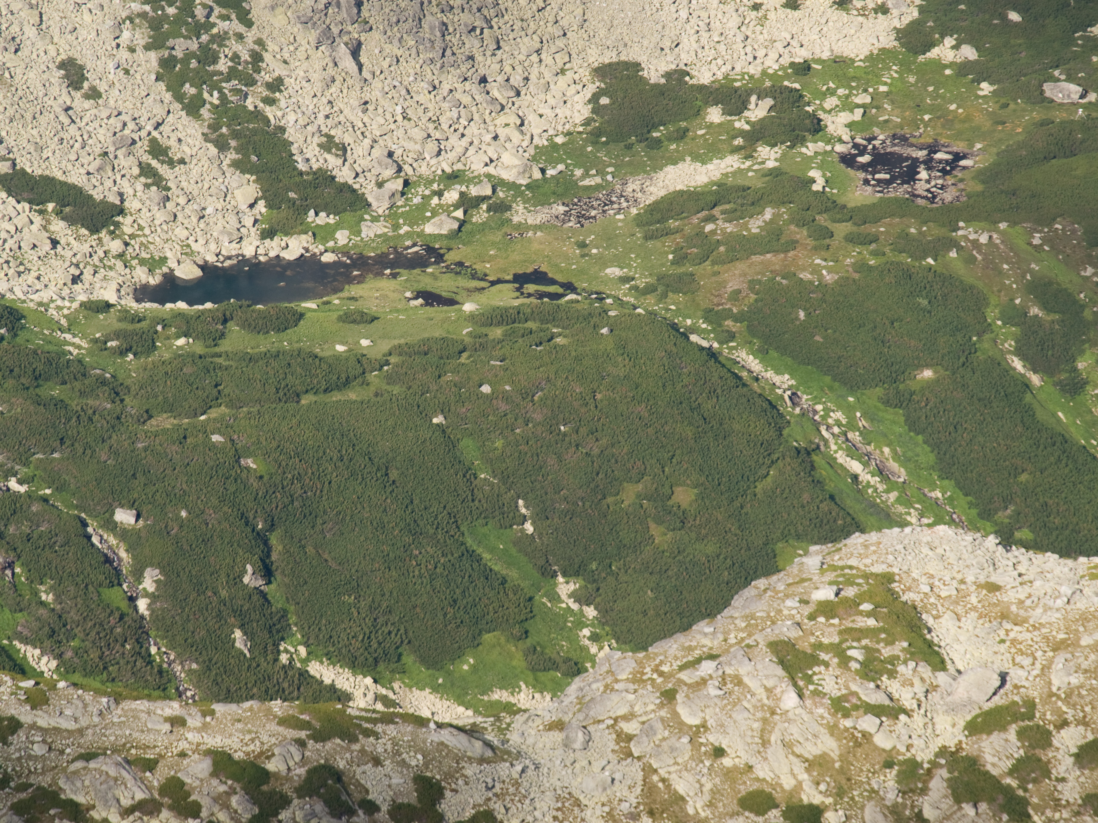 Studené plesá in Veľká Studená dolina